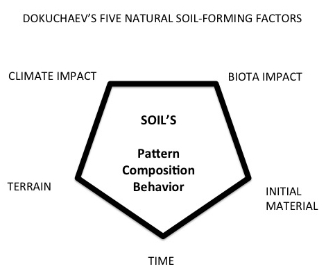 Dokuchaev's soil forming factors